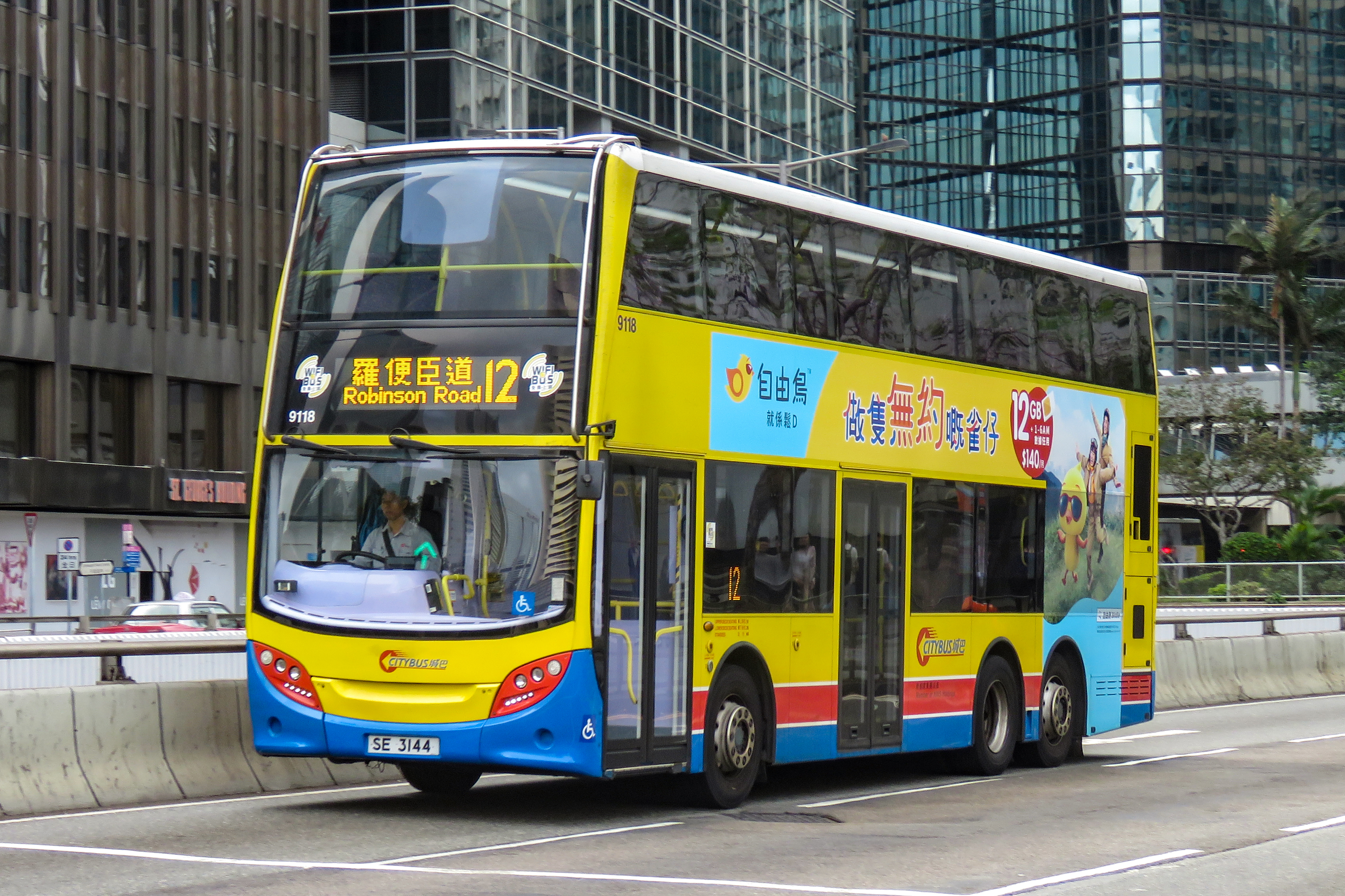 This route is often run by single-decks.